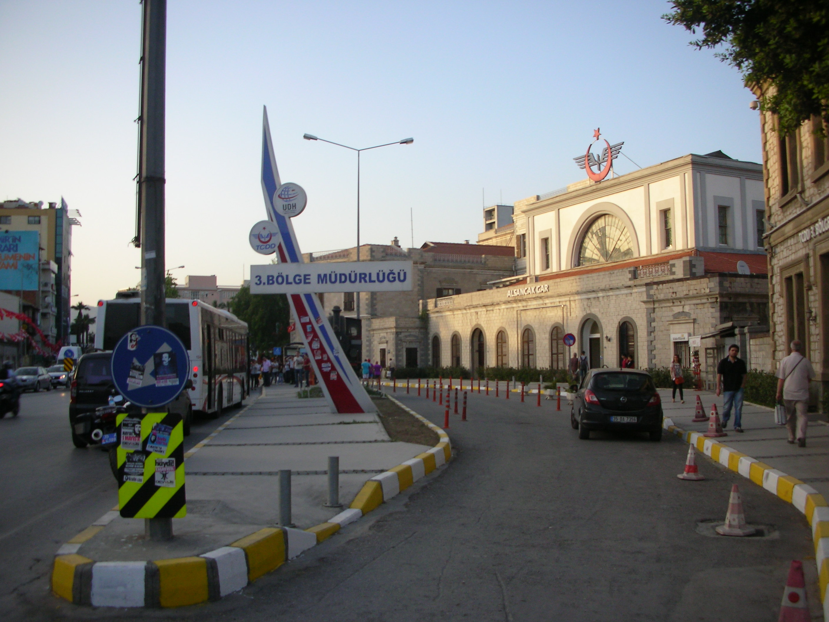 View of Alsancak Railway Station from outside on May 15th, 2015.